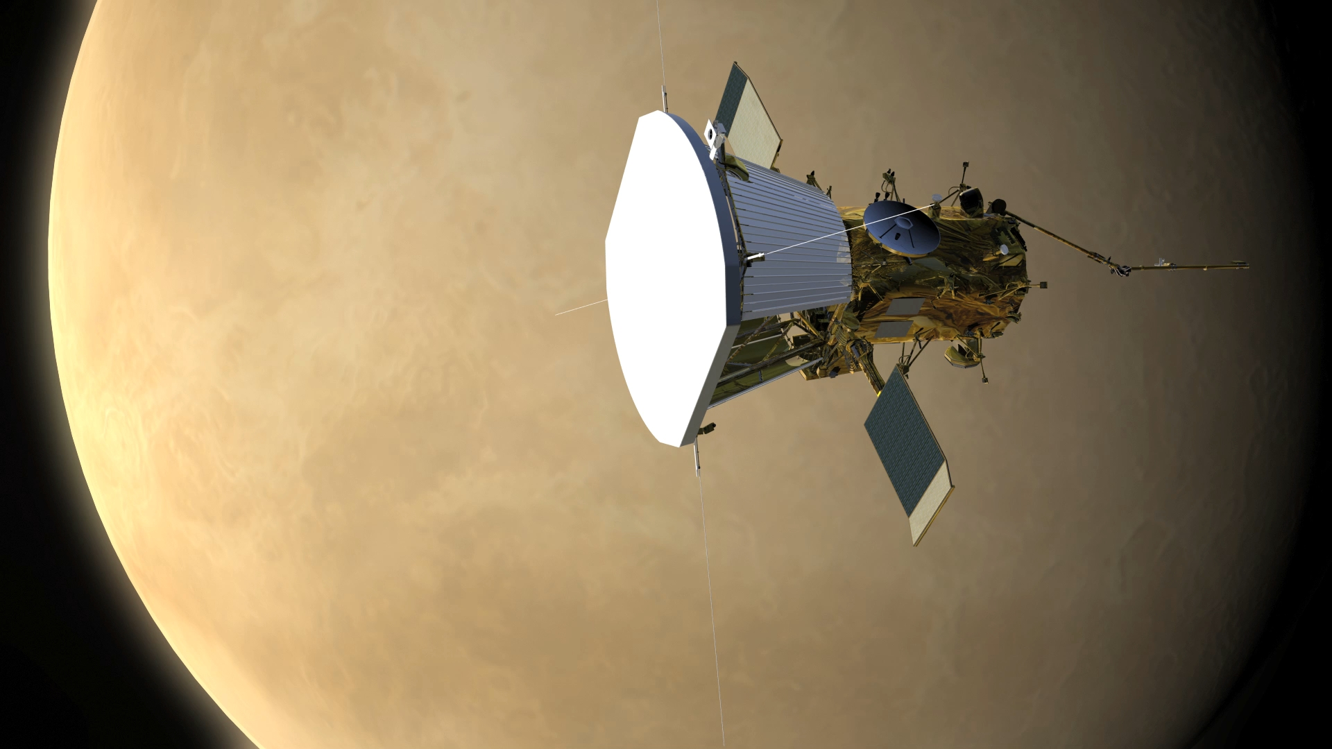 Artist impression of Solar Probe Plus during Venus fly-by